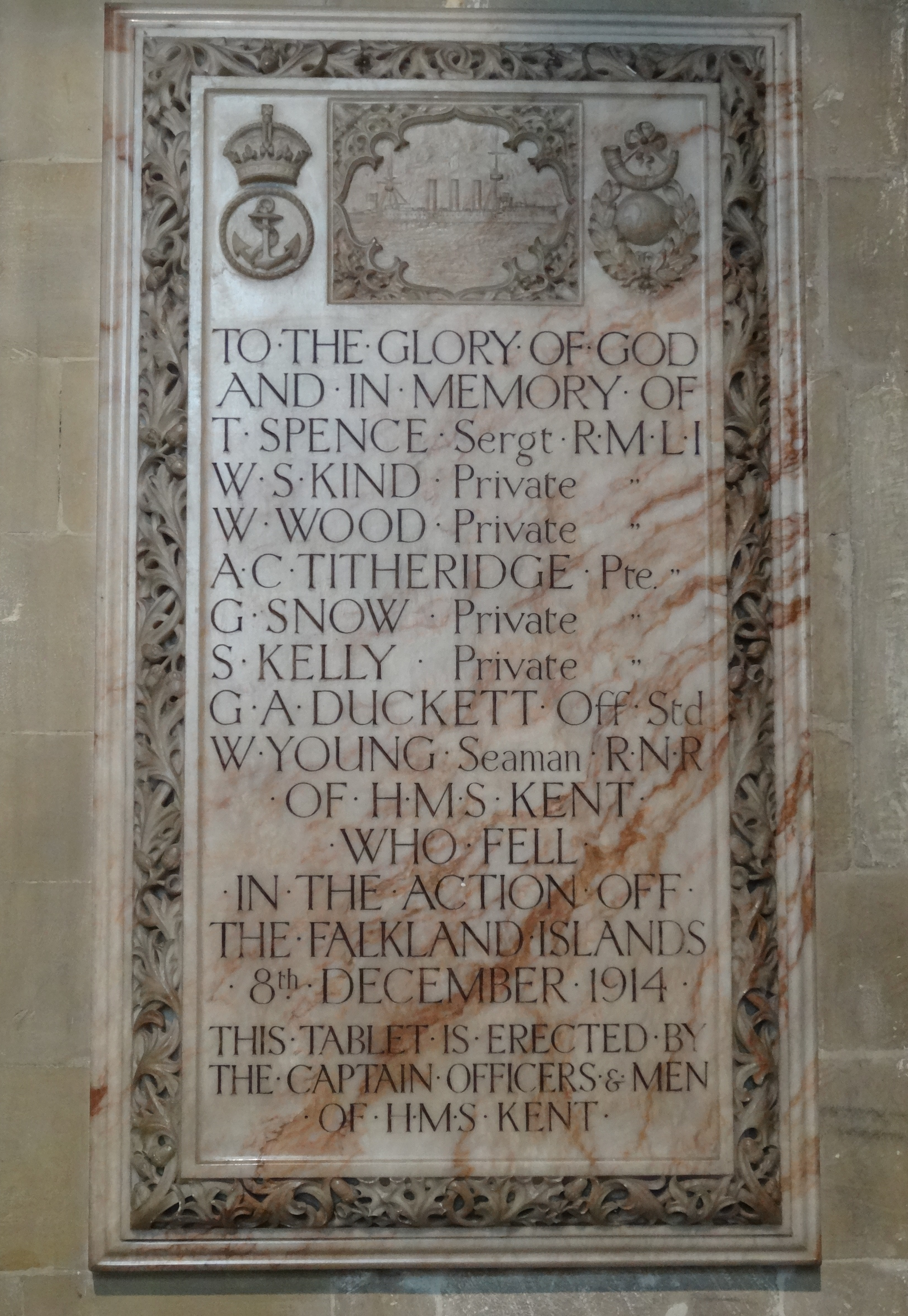 Church monuments in Canterbury Cathedral